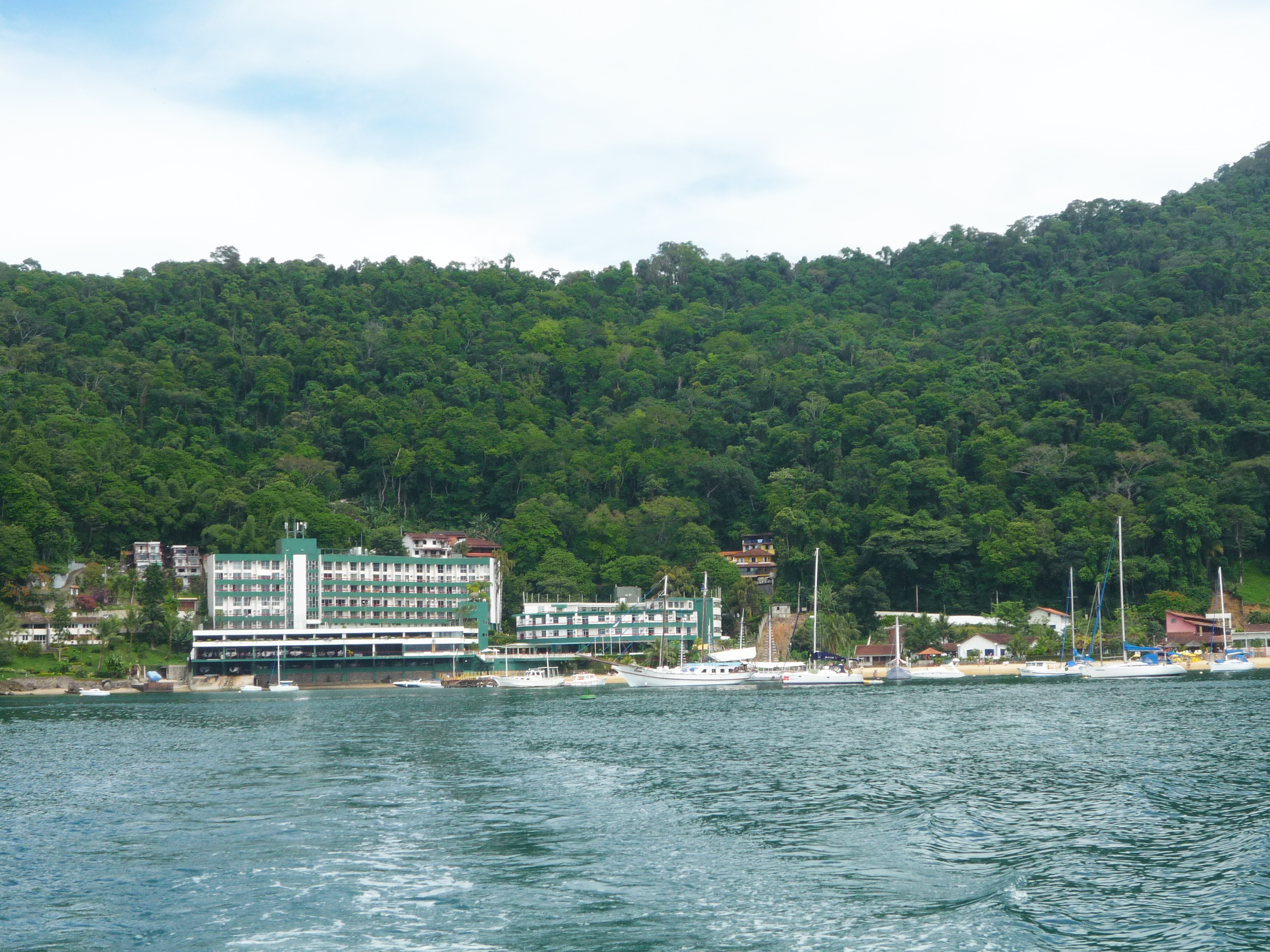 View of the Grande Beach in Angra dos Reis, Brazil